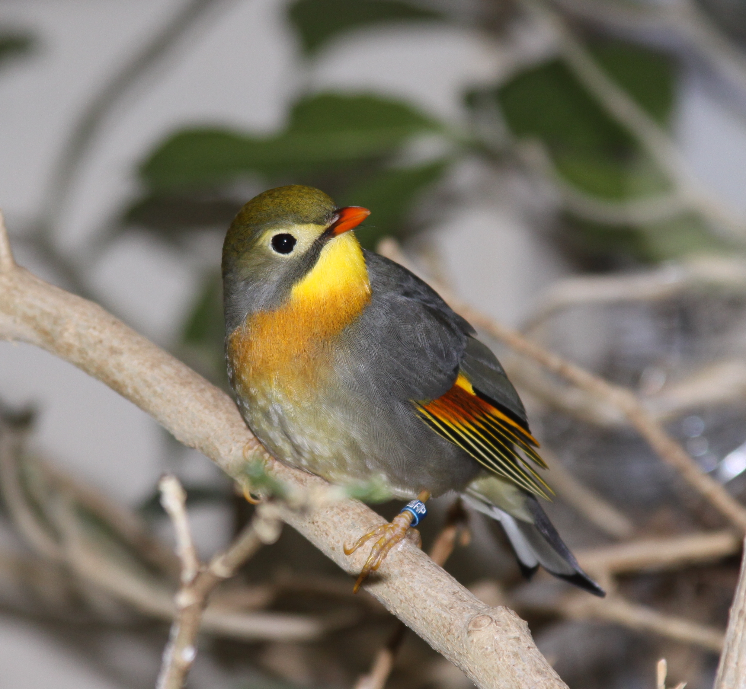 A male Red-billed Leiothrix at London Zoo, England.